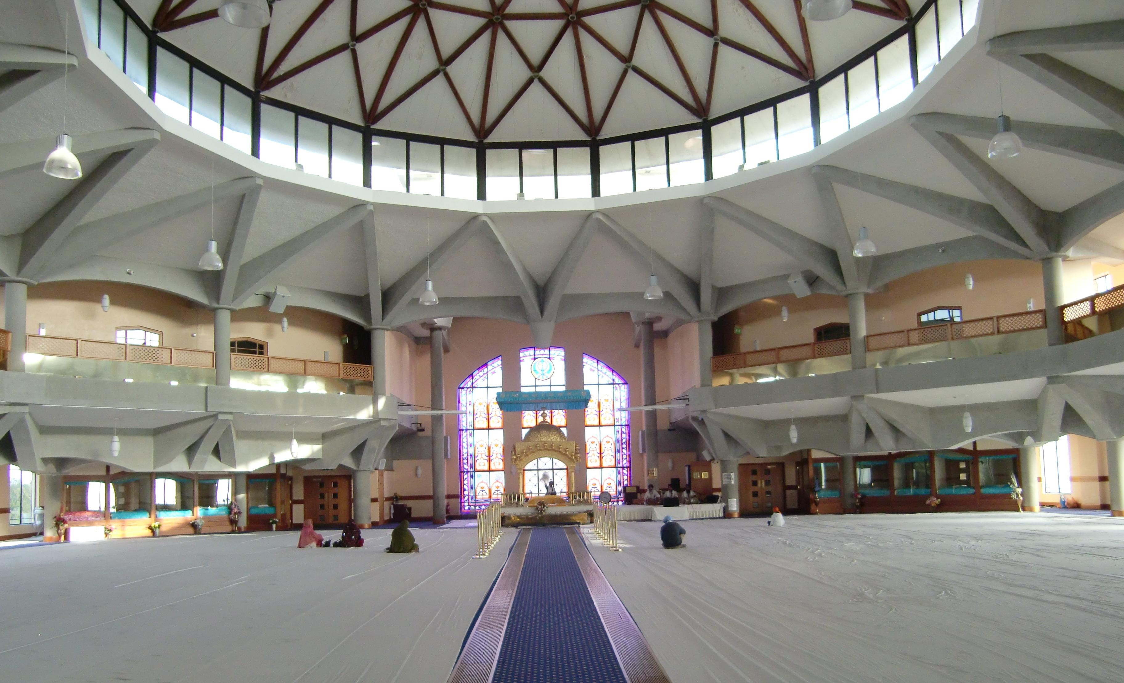 Gurdwara Sri Guru Sigh Sabha, Southall, Palki and stained glass and part of ceiling in main hall. With thanks to the Gurdwara for allowing photography